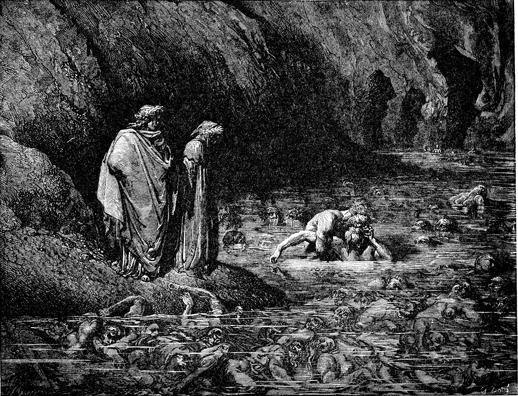 High resolution scan of engraving by Gustave Doré illustrating Canto XXXII of Divine Comedy, Inferno, by Dante Alighieri. Caption: Ugolino gnawing the Head of Ruggieri.